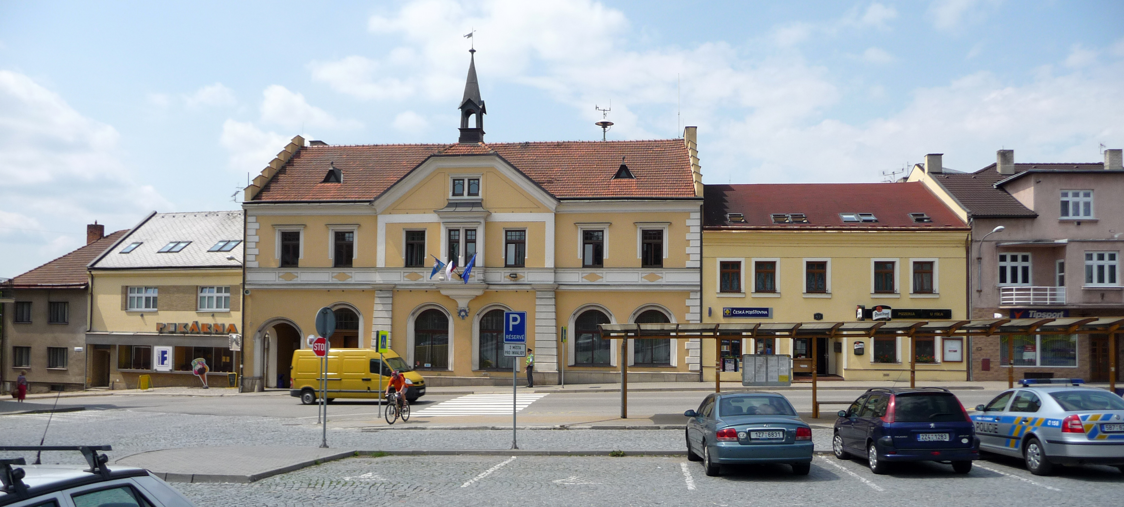 Town hall, Peace Square (náměstí Míru), Fryšták, Zlín District